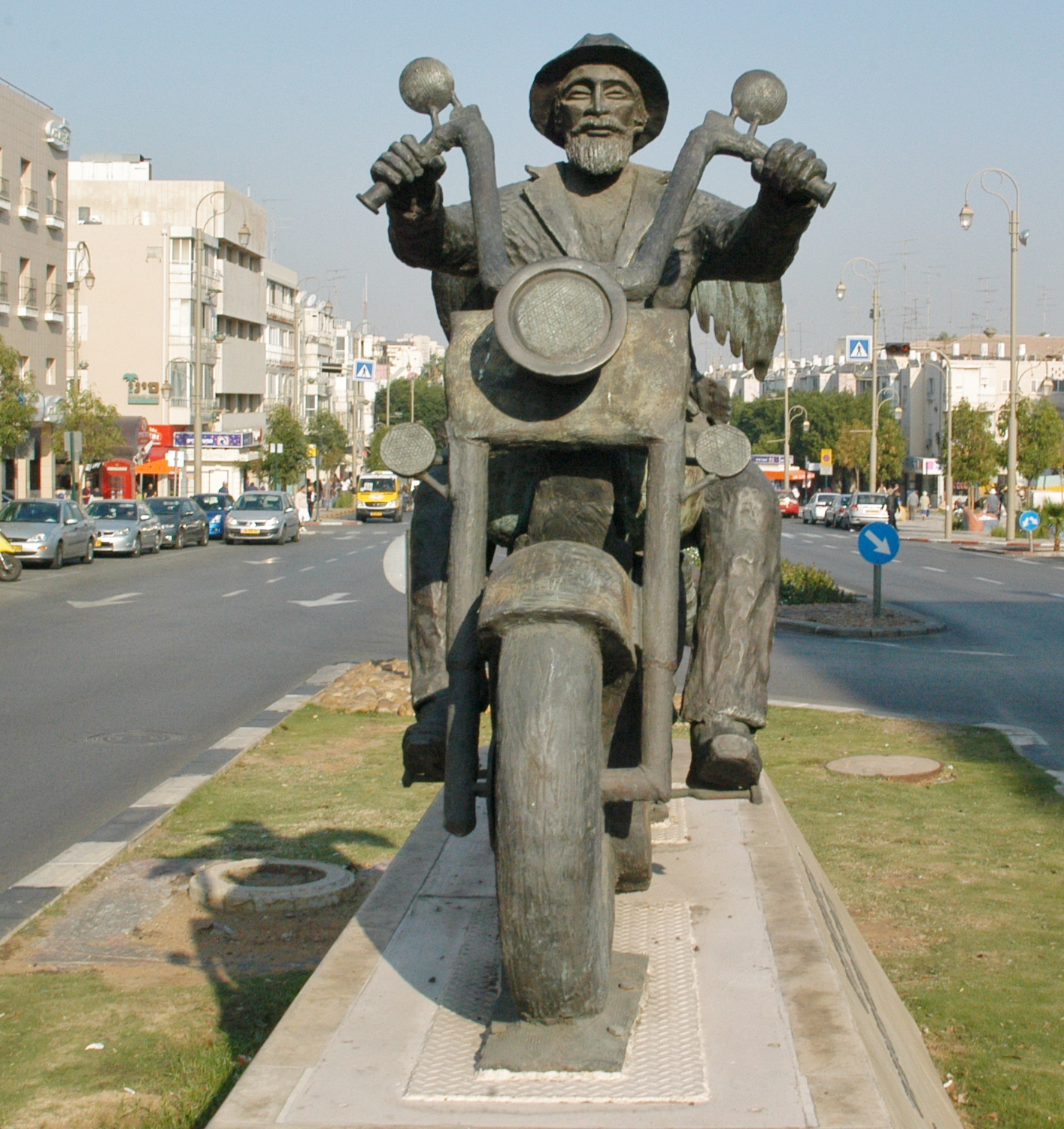 Artistic statue of Yoel Moshe Salomon on Haim Ozer St. in Petah Tikva, Israel